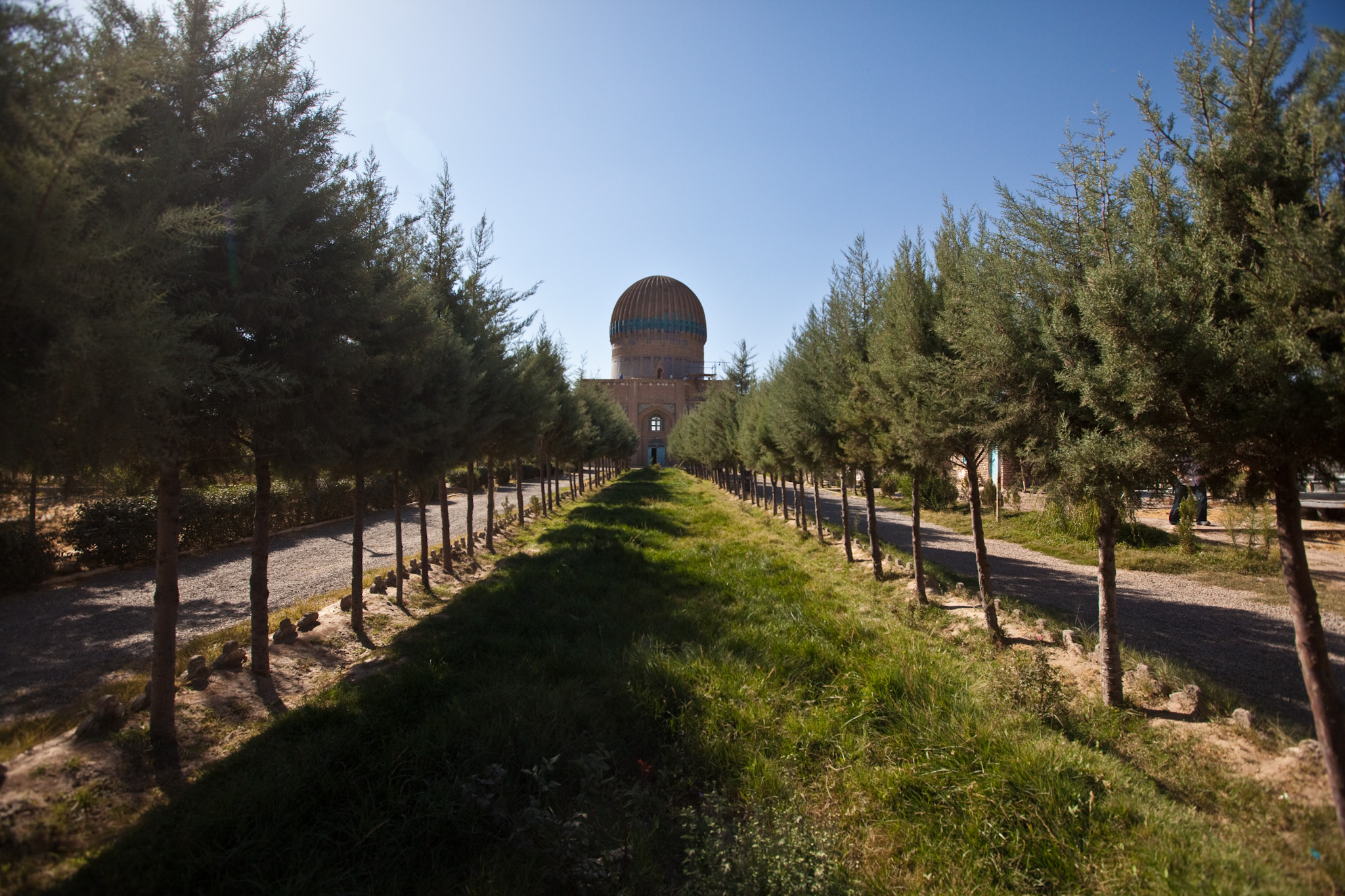 The famous Musalla Complex in Herat, Afghanistan.